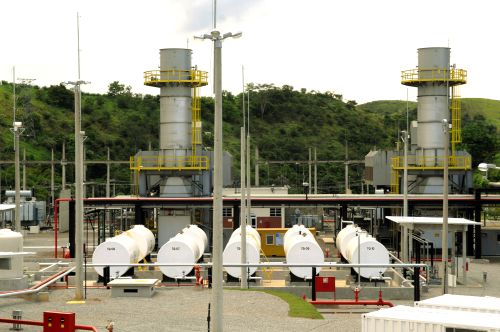 Usina Juiz de Fora